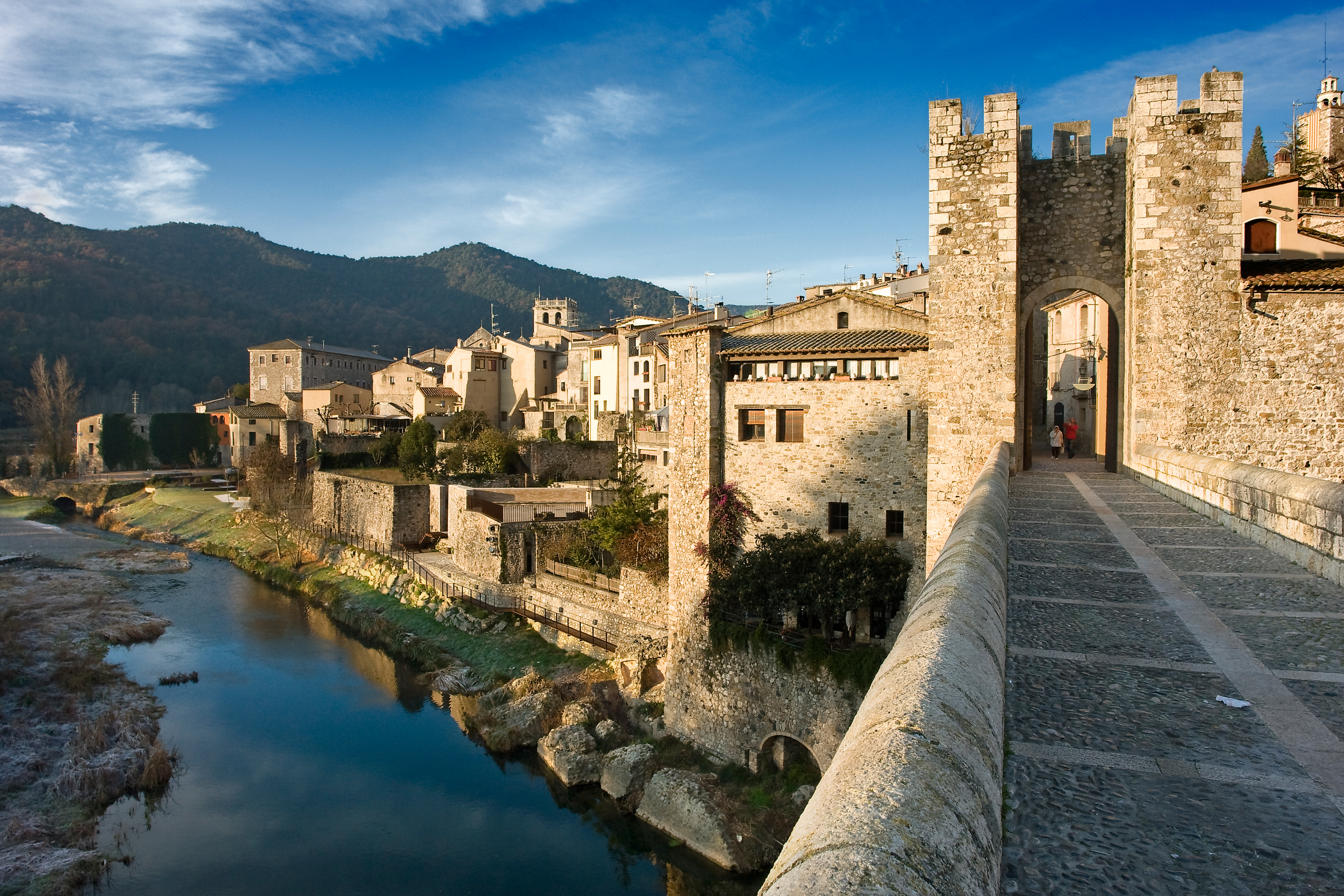 View of the historic site of Besalú, a fortified medieval village with access throught his renown Romanesque bridge shown in the foreground